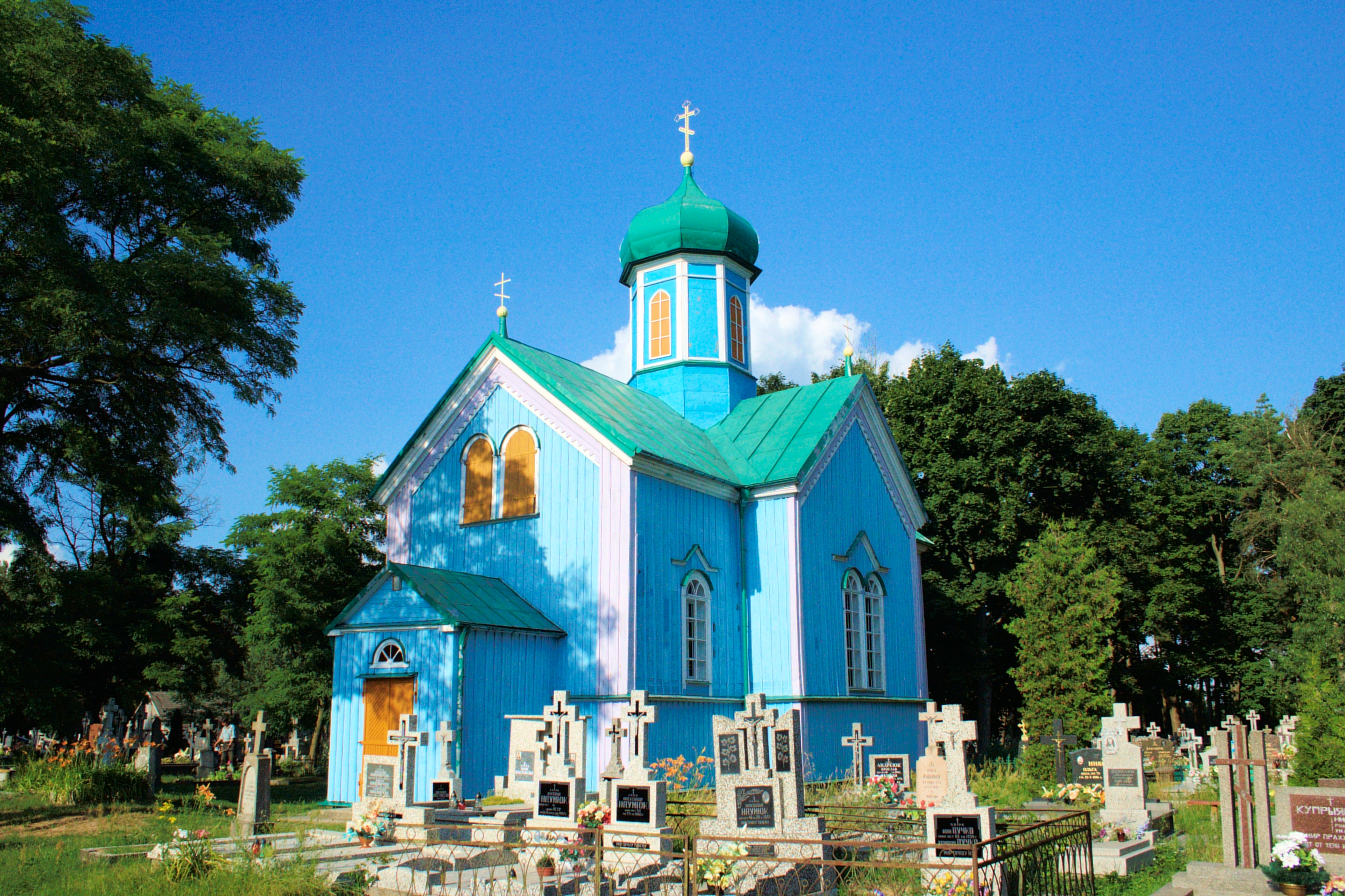 Orthodox church of St. George in Ryboły village